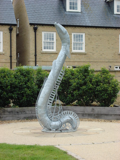 An Eel in Ely It is said that Ely derives its name from 'eel' and '-y' or '-ey' meaning island, i.e. an island where there were a lot of eels. This may be true due to the position of Ely, an island in low lying fens, which were historically very marshy and rich in eels.